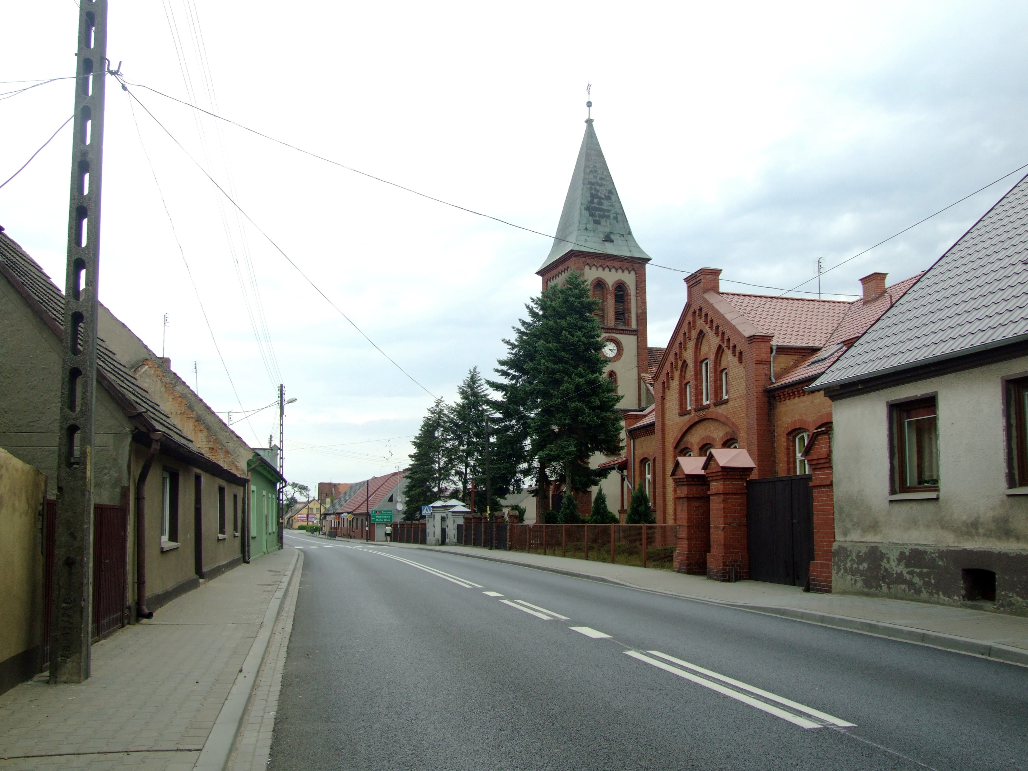 The village of Kopanica near Wolsztyn, Poland